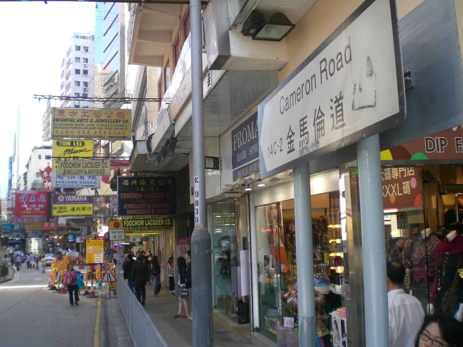 金馬倫道, Cameron Road, TST, Hong Kong